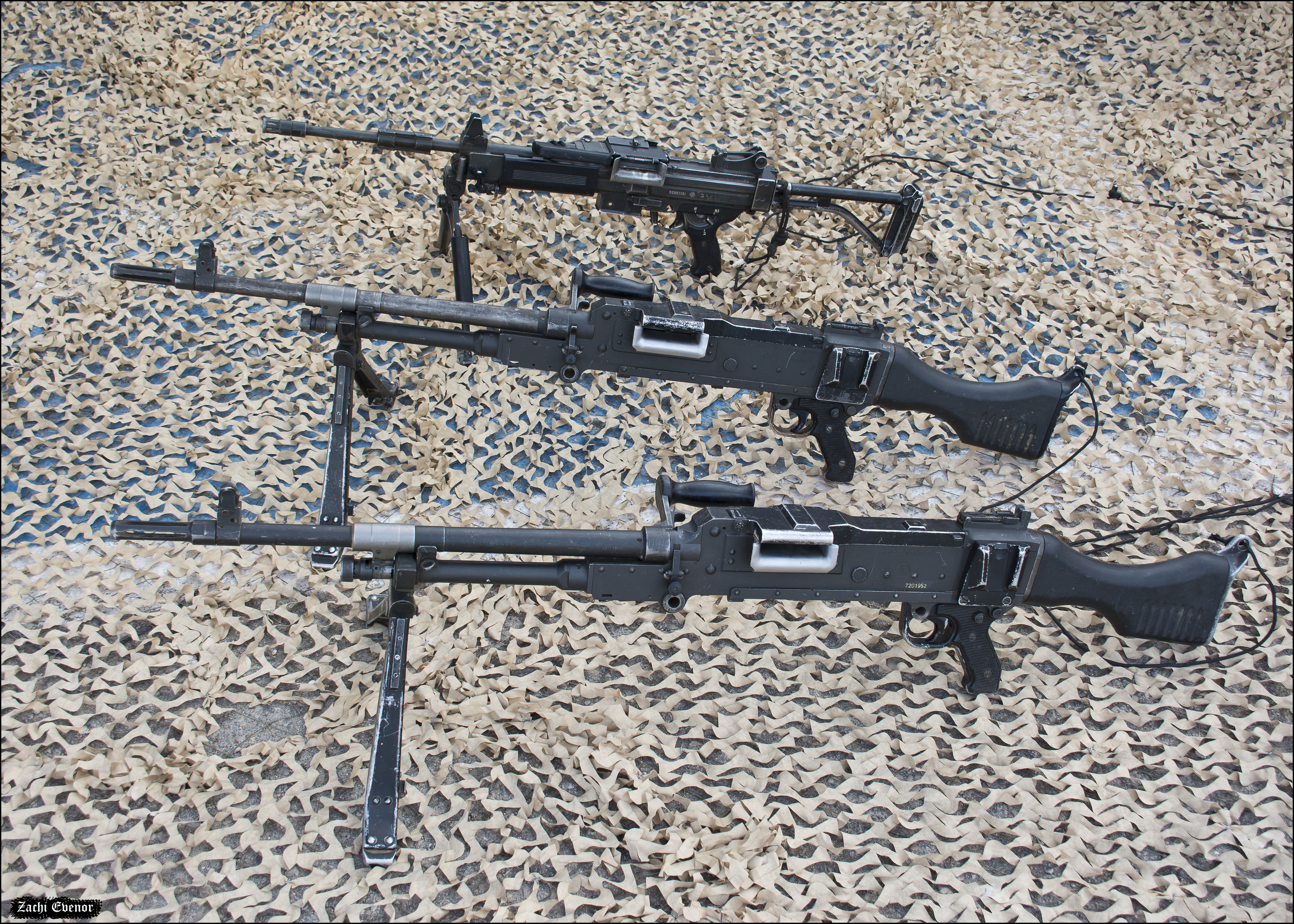 IMI Negev/IWI Negev and two FN MAG machineguns